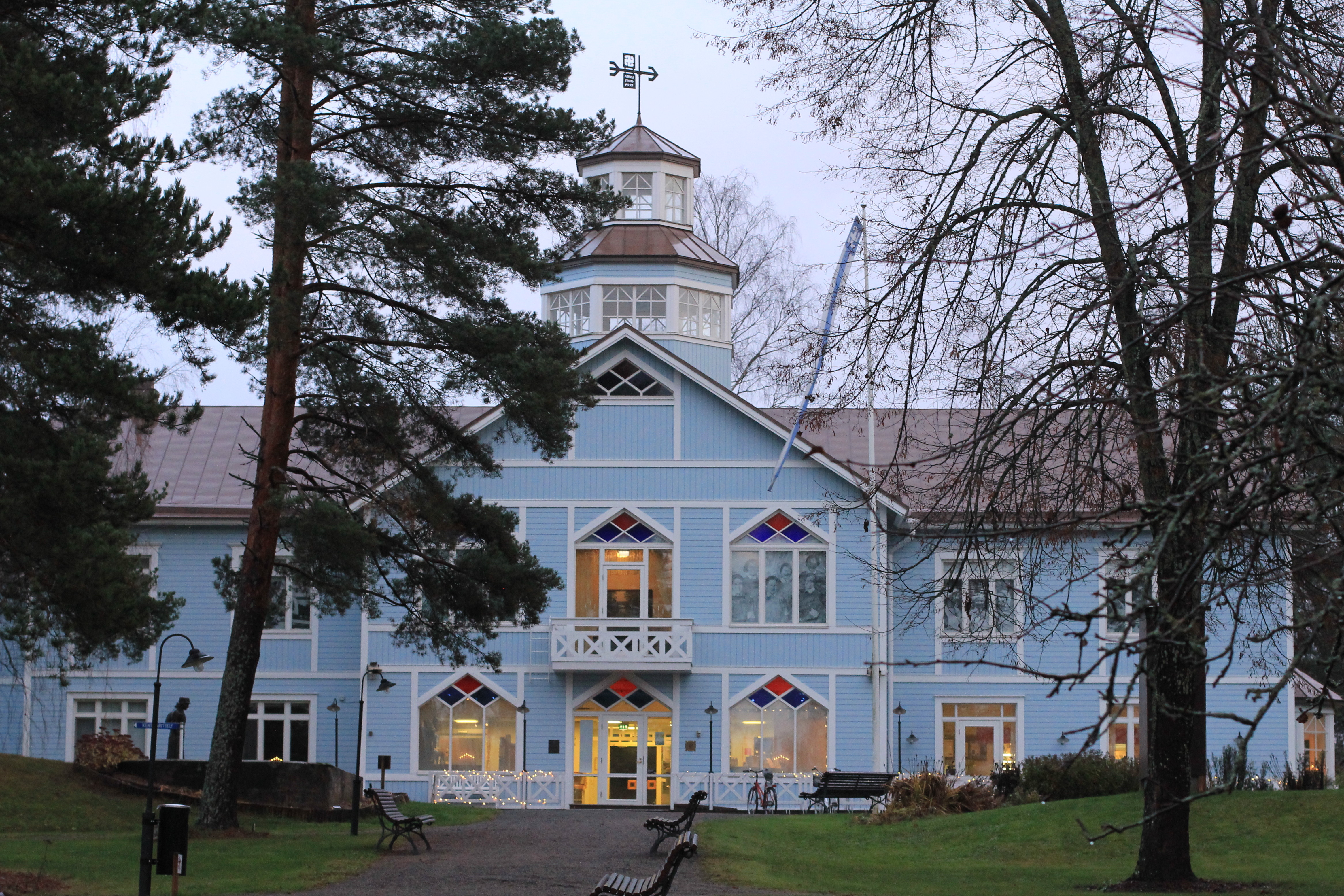 The Lotta Museum, Tuusula, Finland. - Museum established in 1996. Museum building completed in 1996, designed by architects Irmeli and Markus Visanti. - Western facade.